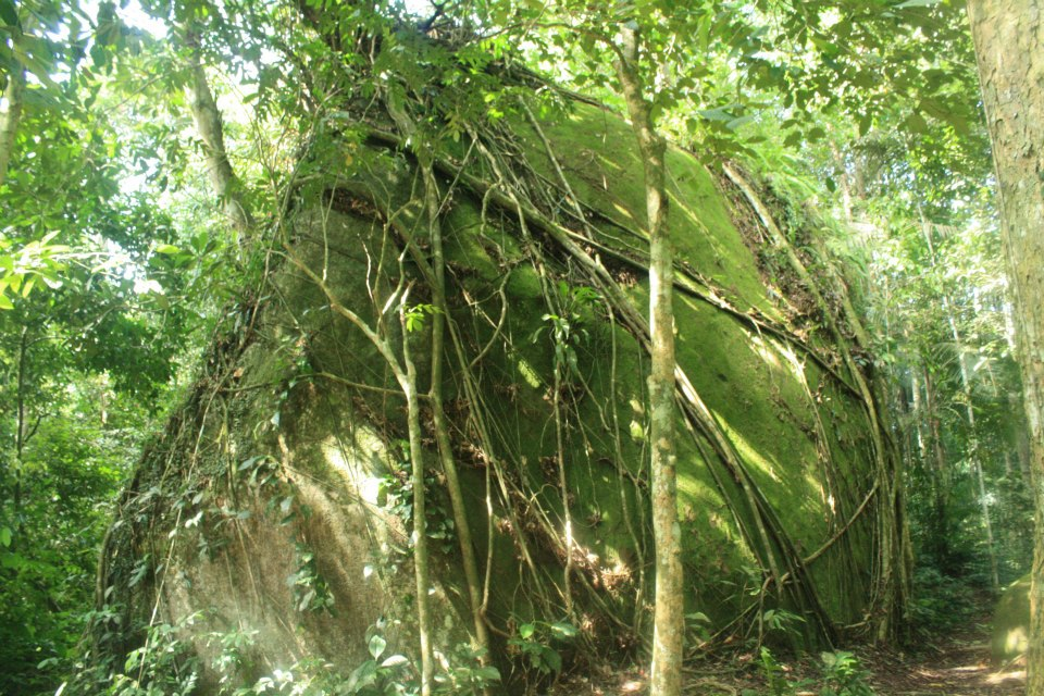 Batu Maloi Rock in the Titiwangsa Mountains of Negeri Sembilan